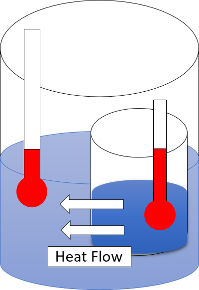 Heat flow from hot water to cold water.